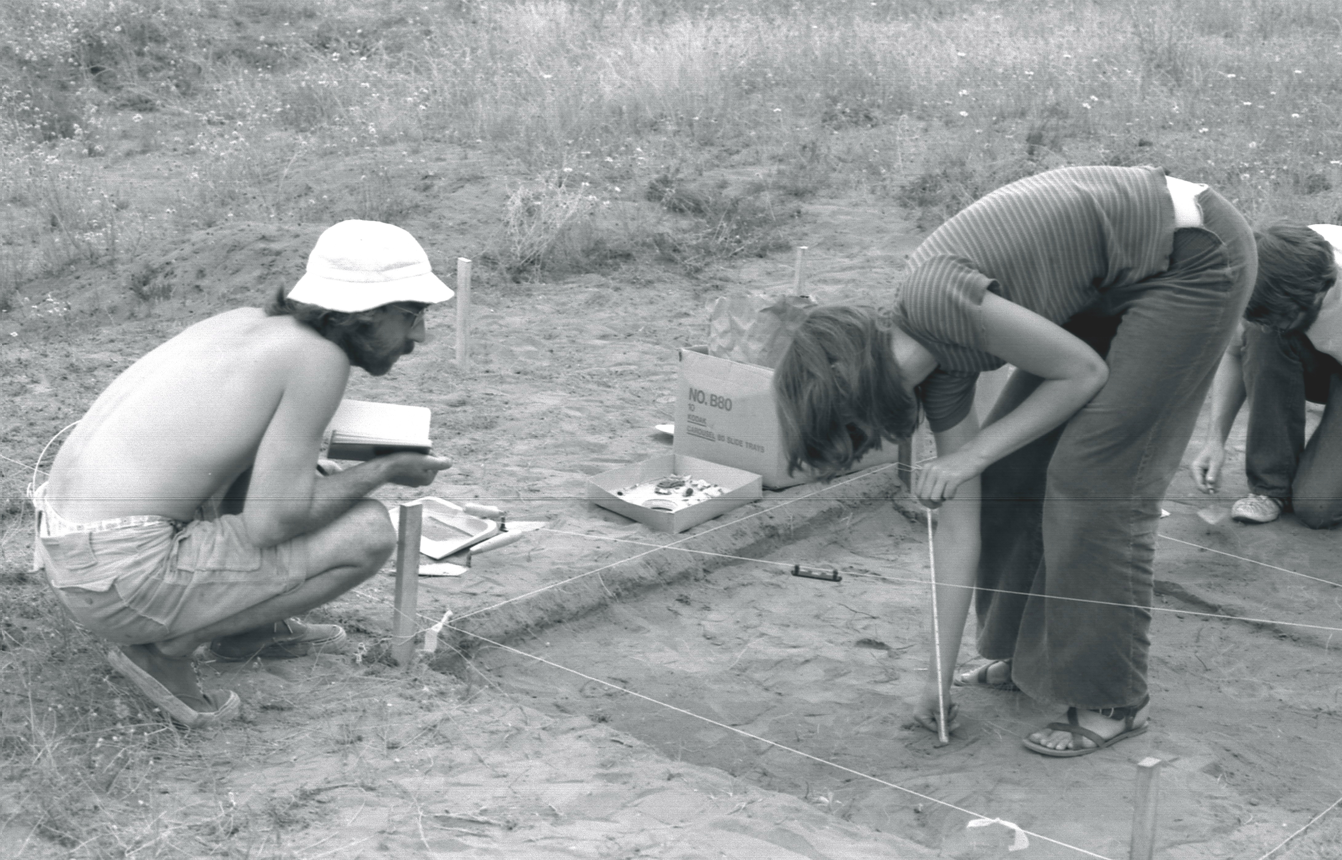 Photo taken in the summer of 1973